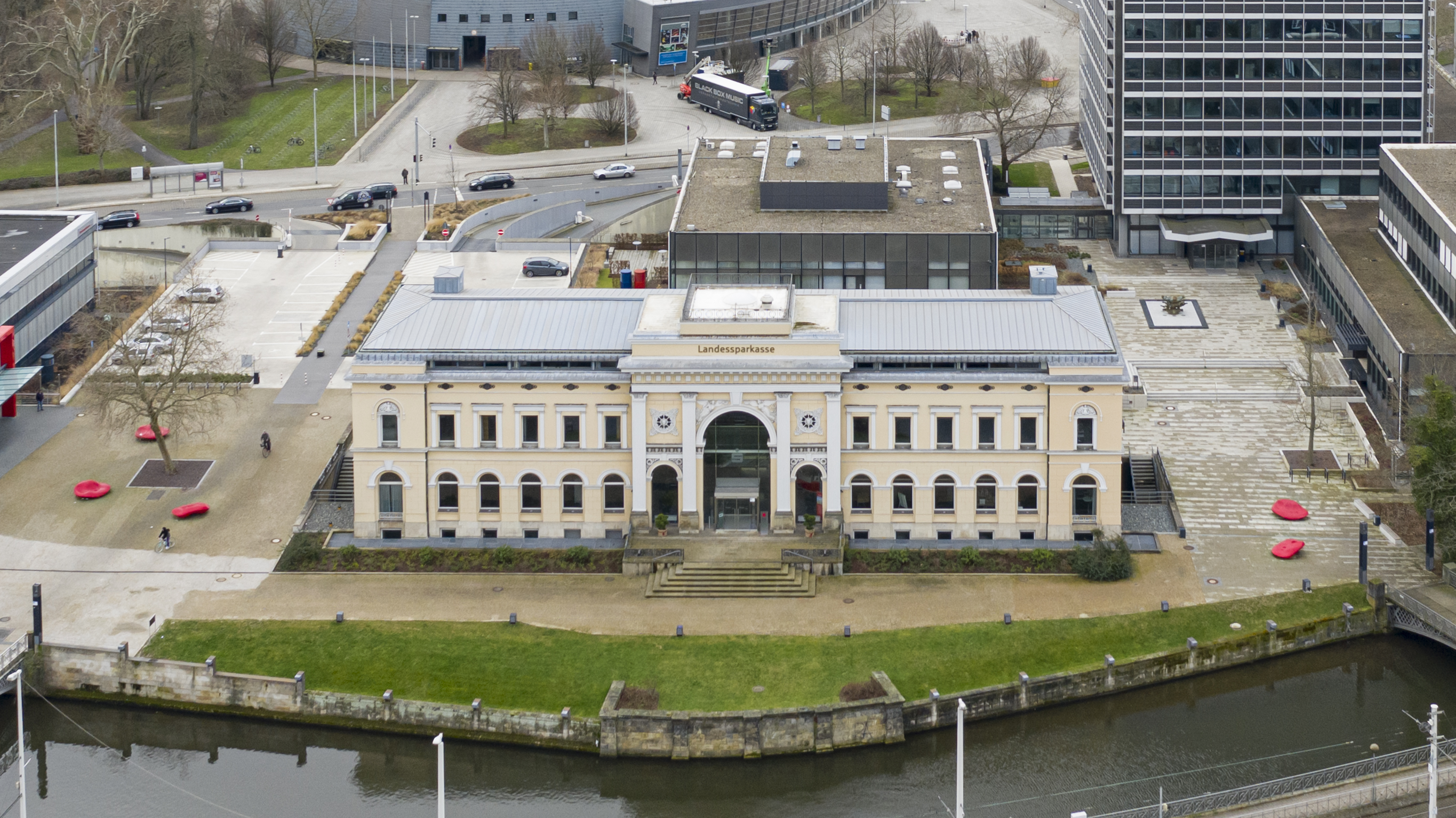 Alter Bahnhof, Braunschweig, Germany